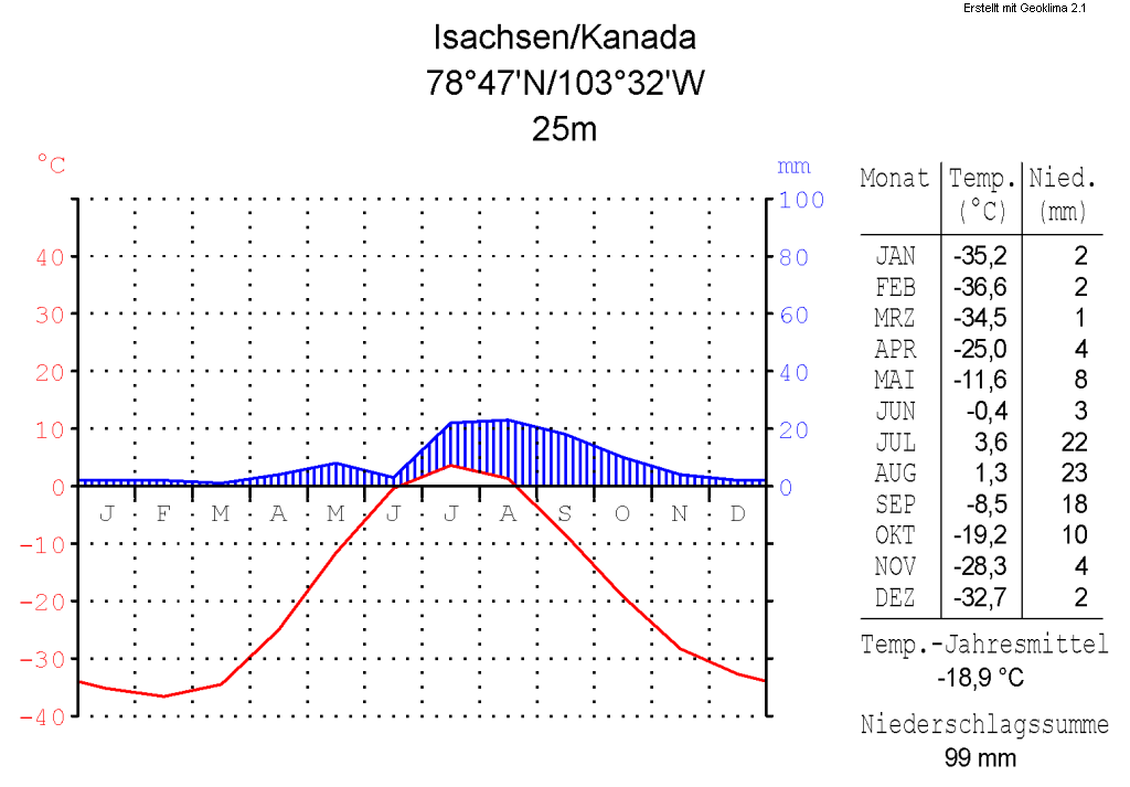 Climate chart in the format by Walther and Lieth, metric, °Celsisus and millimeters, made with Geoklima 2.1